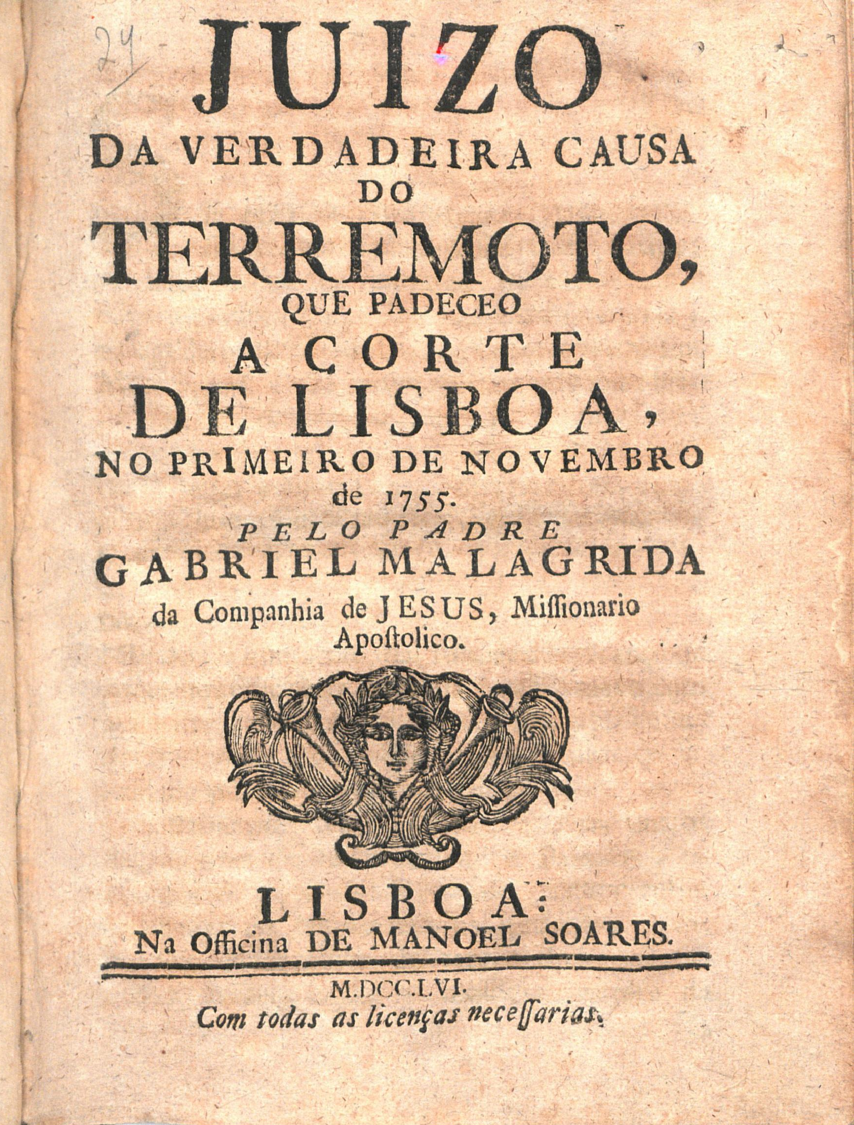 "An Opinion on the True Cause of the Earthquake", by Fr. Gabriel Malagrida (1689-1761).